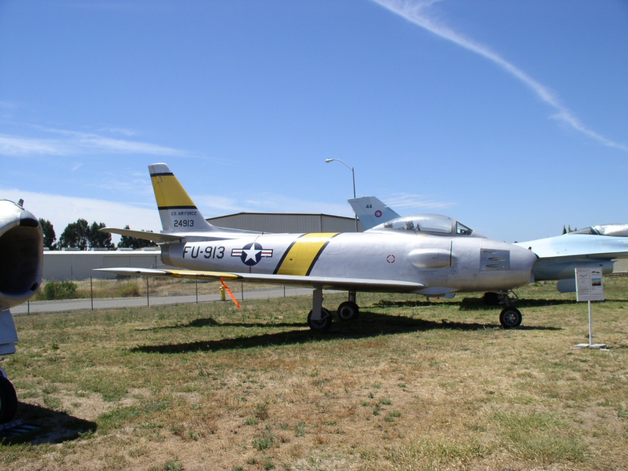 North American Aviation F-86 Sabre. RF-86F modification. Taken in Pacific Coast Air Museum, Santa Rosa, California, USA.